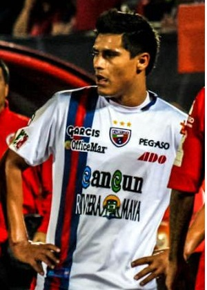 Atlante player Osvaldo Martinez